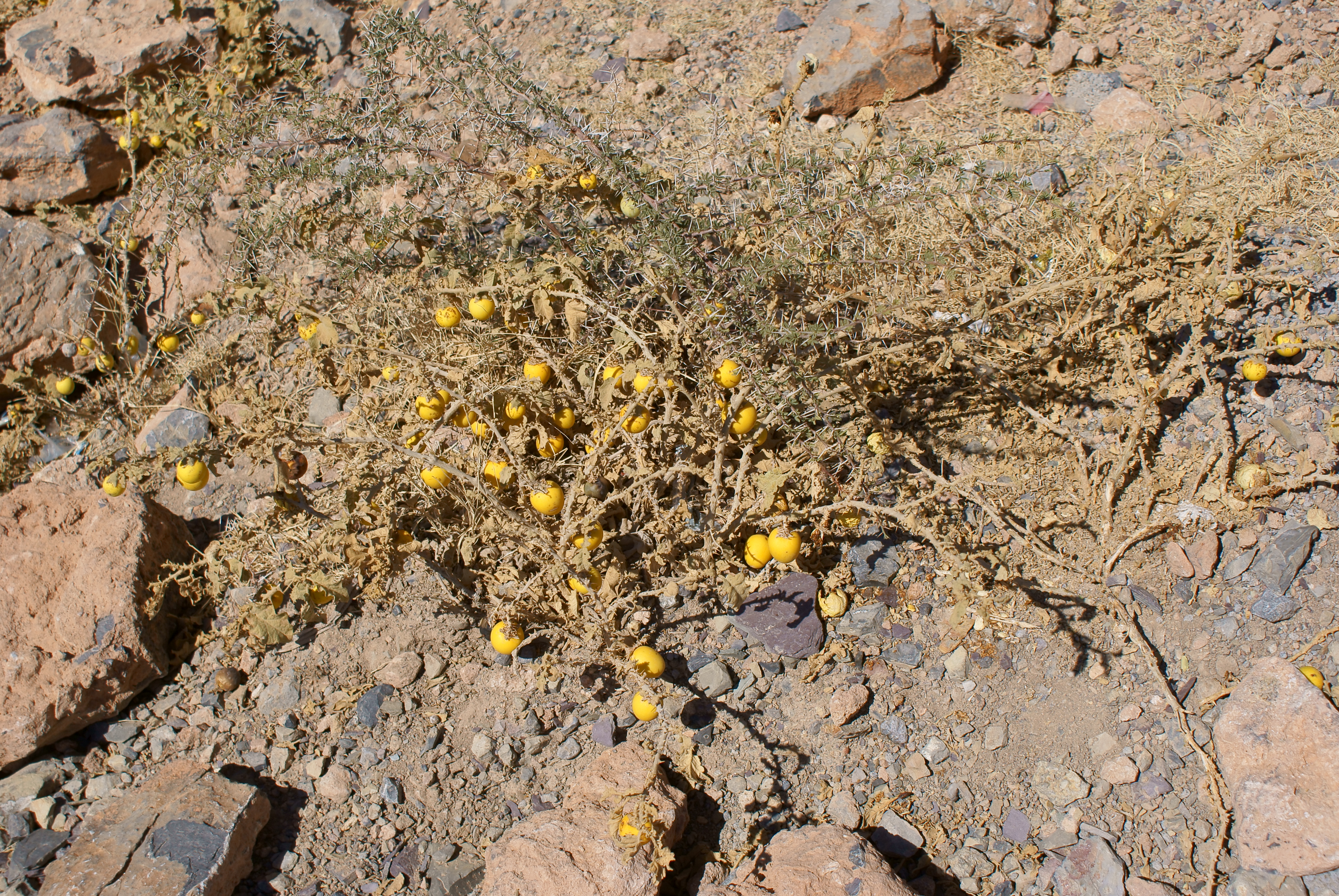 Solanum incanum at an altitude of 1,980m in the Al Hajar Mountains of Oman.